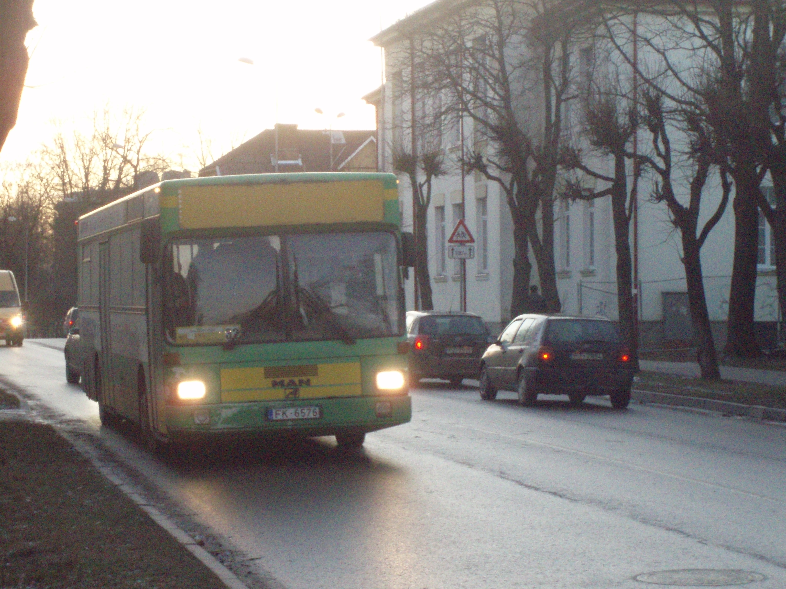 Bus 32 on Dārzu Street in Rēzekne, Latvia.